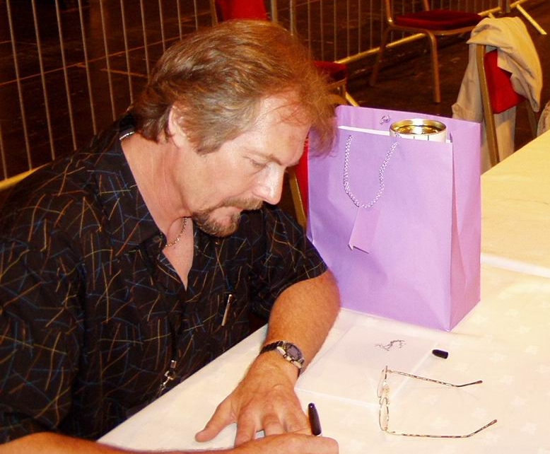 Michael Whelan at Worldcon 2005 in Glasgow, August 2005. Picture taken by Szymon Sokół.